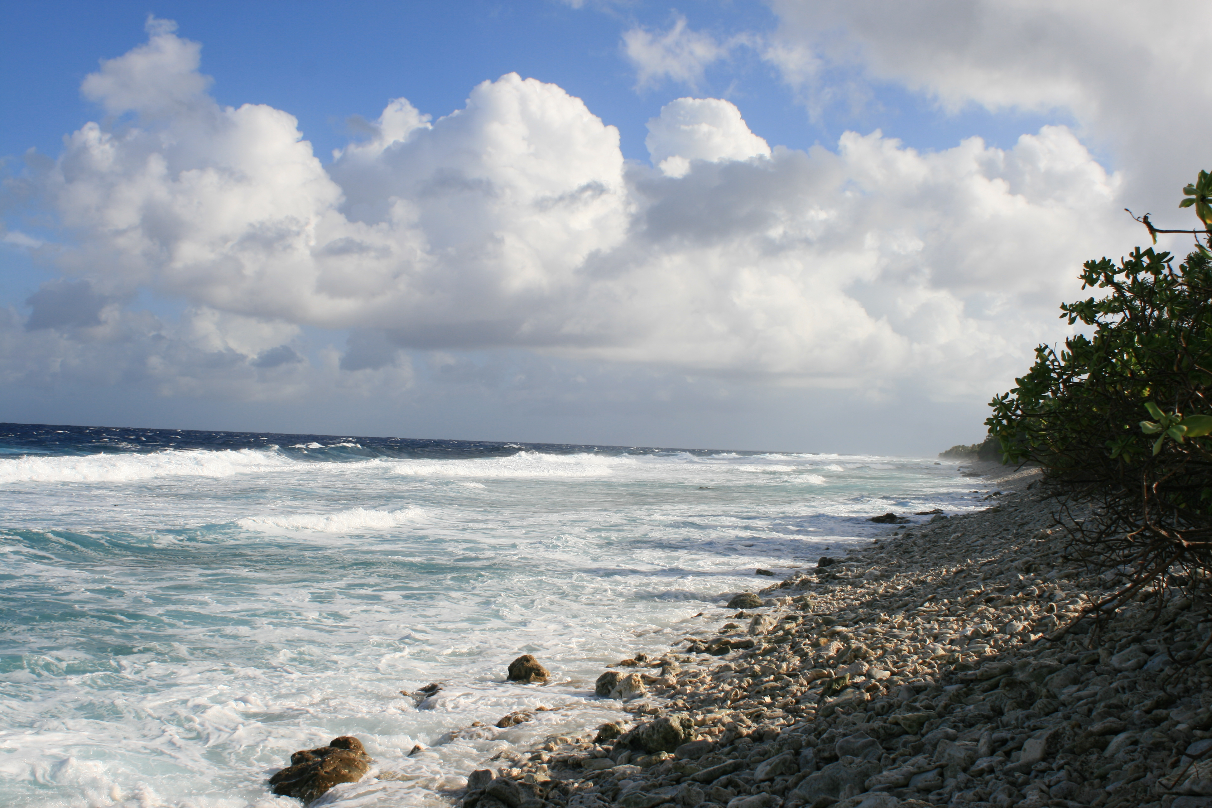 Ocean side of Funafuti looking south.